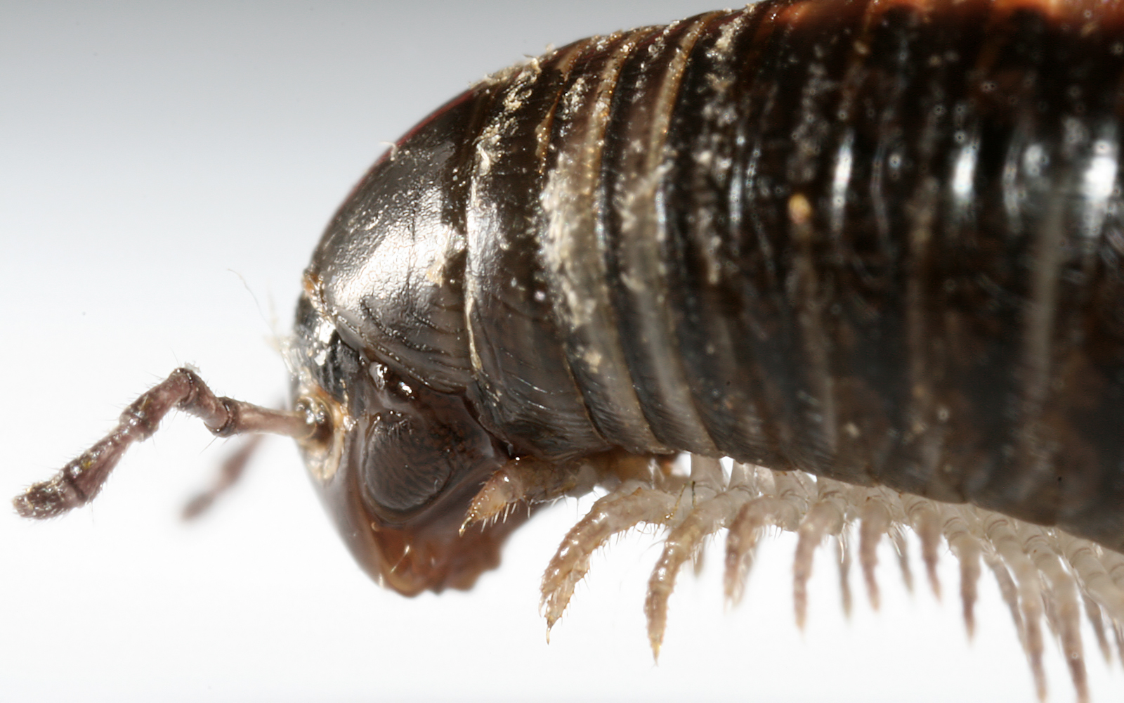 A millipede of unknown species